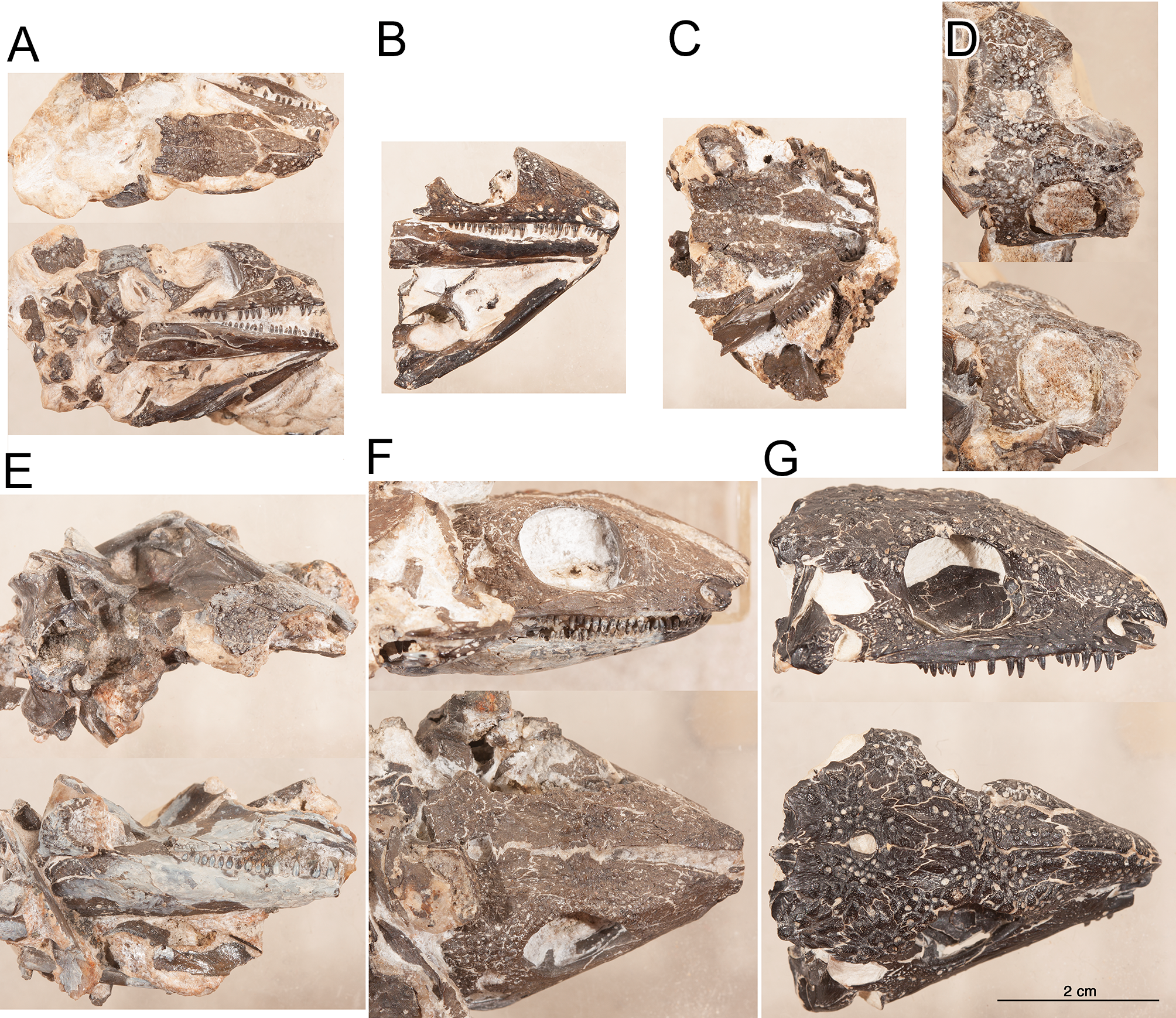 S1 Fig. Cranial material of Delorhynchus cifellii. (A) dorsal and lateral views of the skull and lower jaw of OMNH 77675, (B) lateral view of anterior portion of the skull and lower jaw of OMNH 77676, (C) anterior portion of the skull and portion of the lower jaw of OMNH 77677, (D) Orbital region and posterior portion of the skull in dorsal and lateral view of OMNH 74722, (E) dorsal and lateral view of portions of the skull roof and jaw of OMNH 77678 (F) Lateral and dorsal views of the skull of the holotype of Delorhynchus cifellii OMNH 73515 (G) lateral and dorsal view of the a skull roof of OMNH 73362.